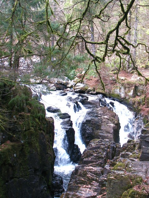 Falls of the Braan There's a whole series of falls on the River Braan downstream from Rumbling Bridge. These are the lowest of the falls at Ossian's Hall.